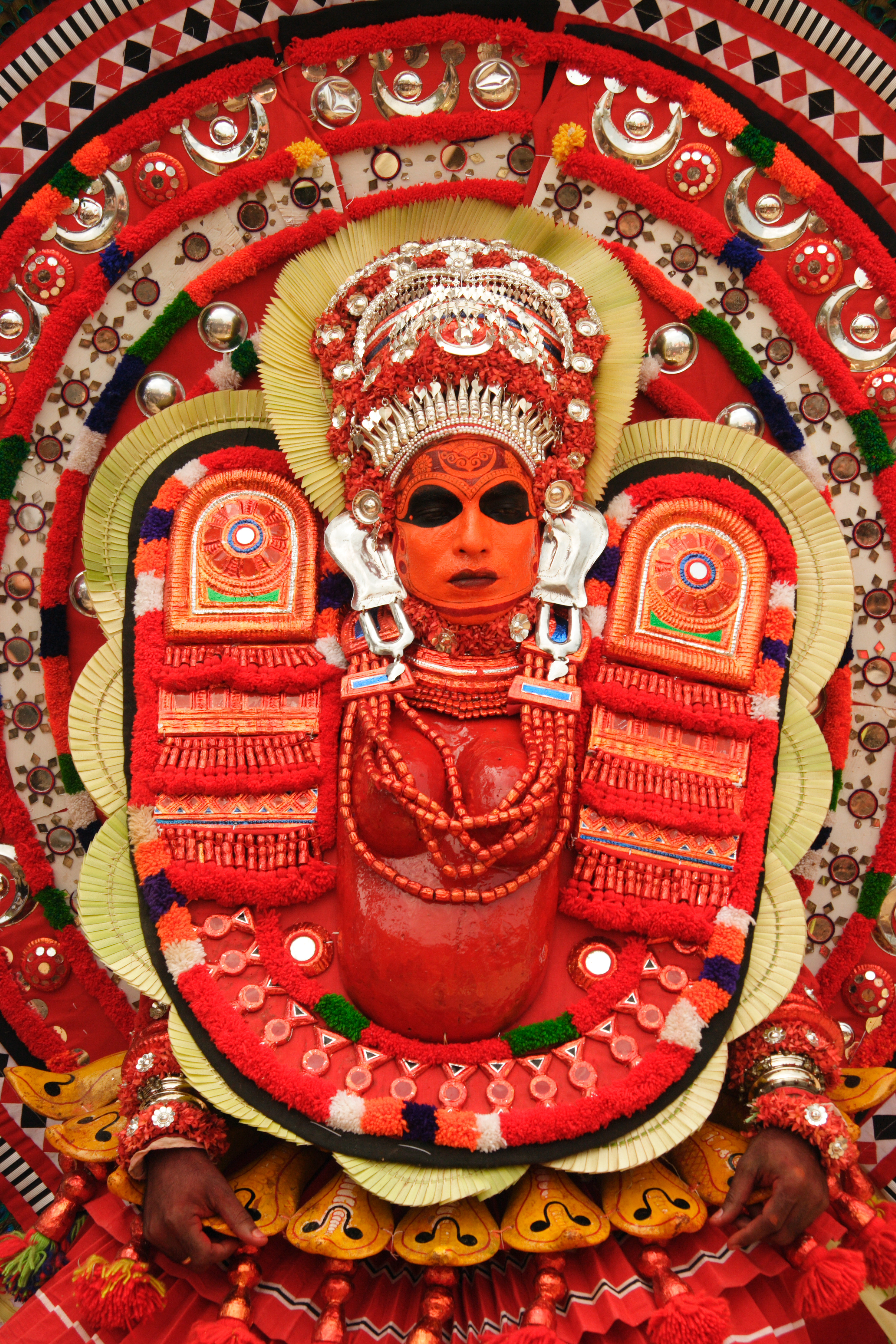 Theyyam